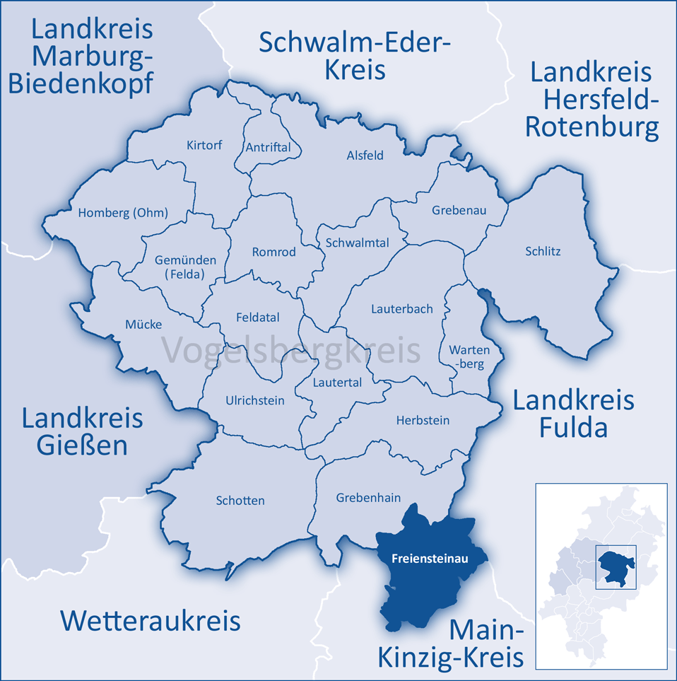 The map shows a district in the area of Vogelsbergkreis